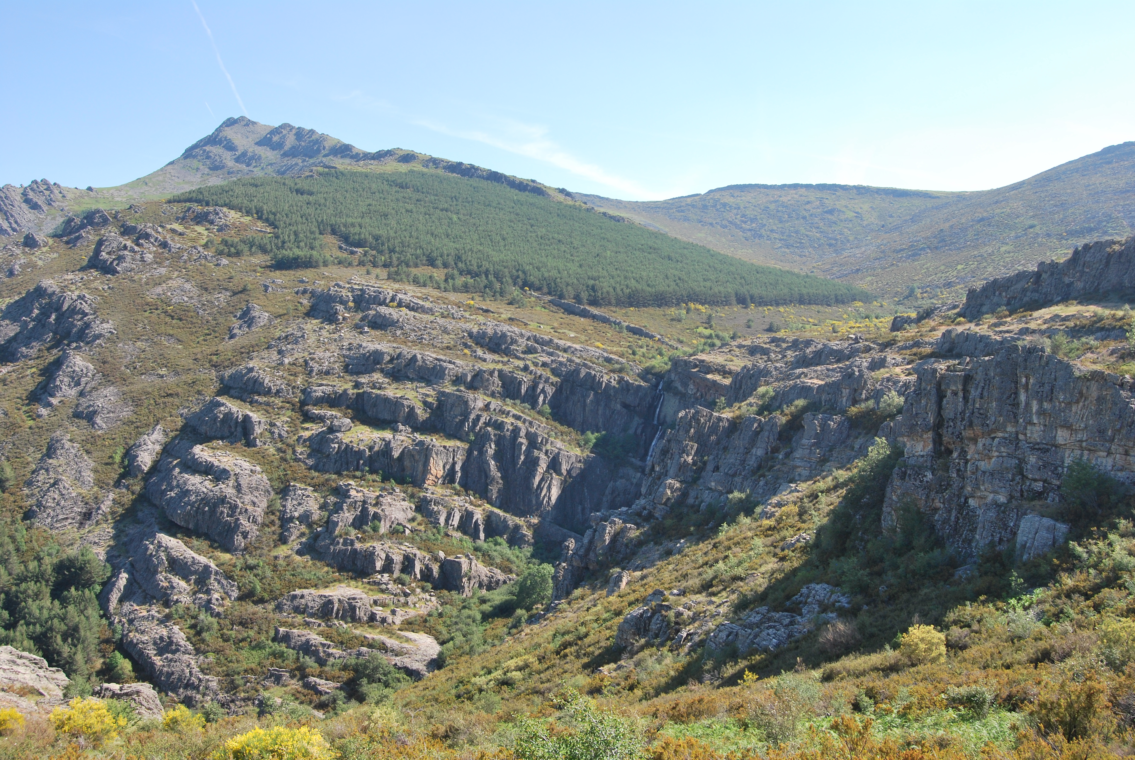 East face of Ocejón Peak from Valverde de los Arroyos, in Guadalajara, Spain.